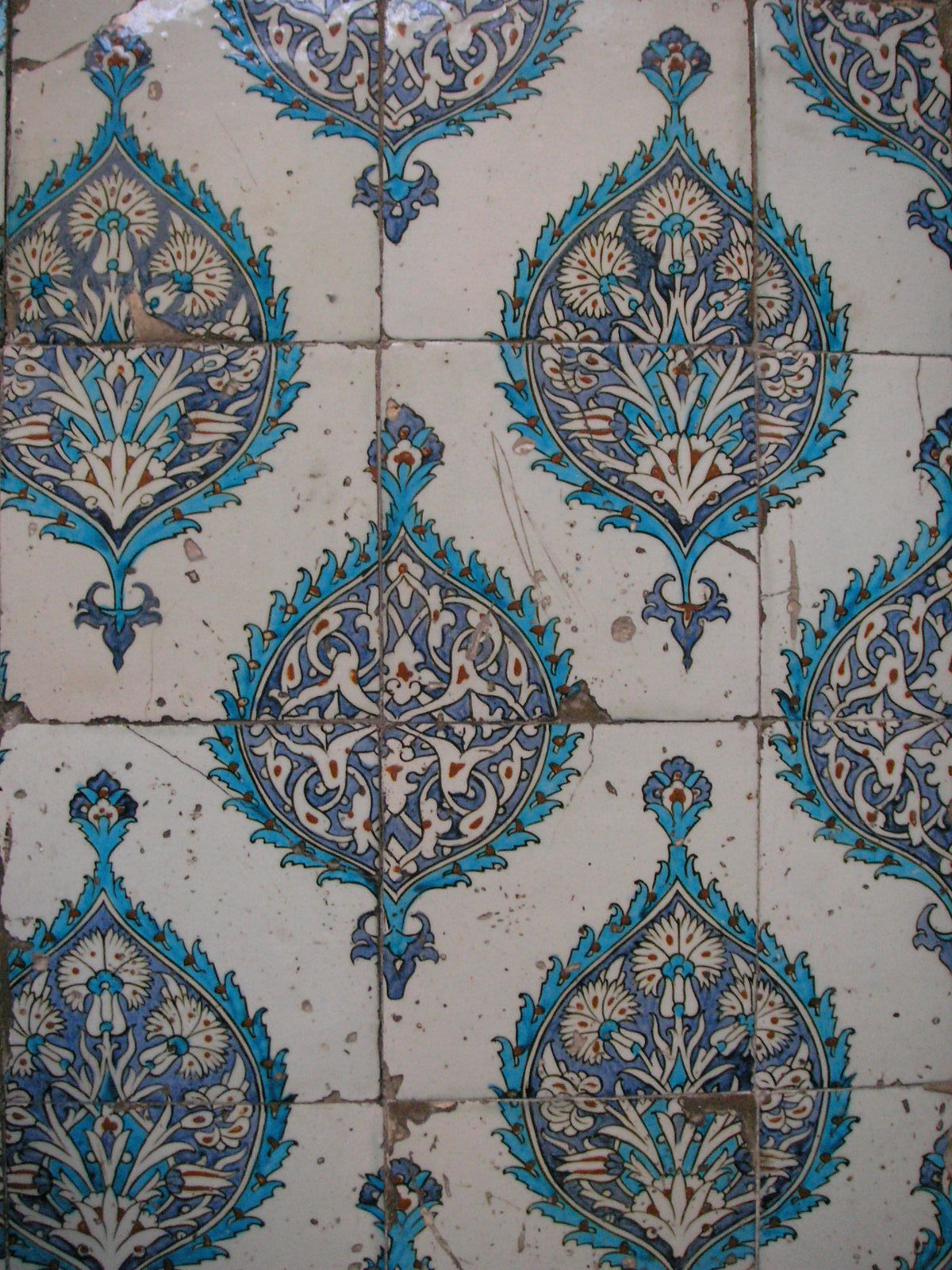 Tiles in the entrance area of the Harem in Topkapi Palace in Istanbul.